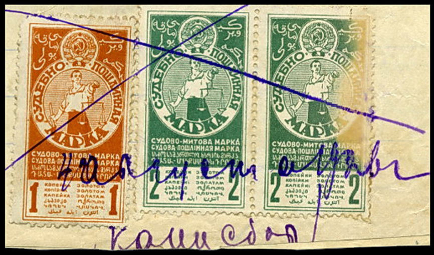 USSR. Stamps of judicial tax